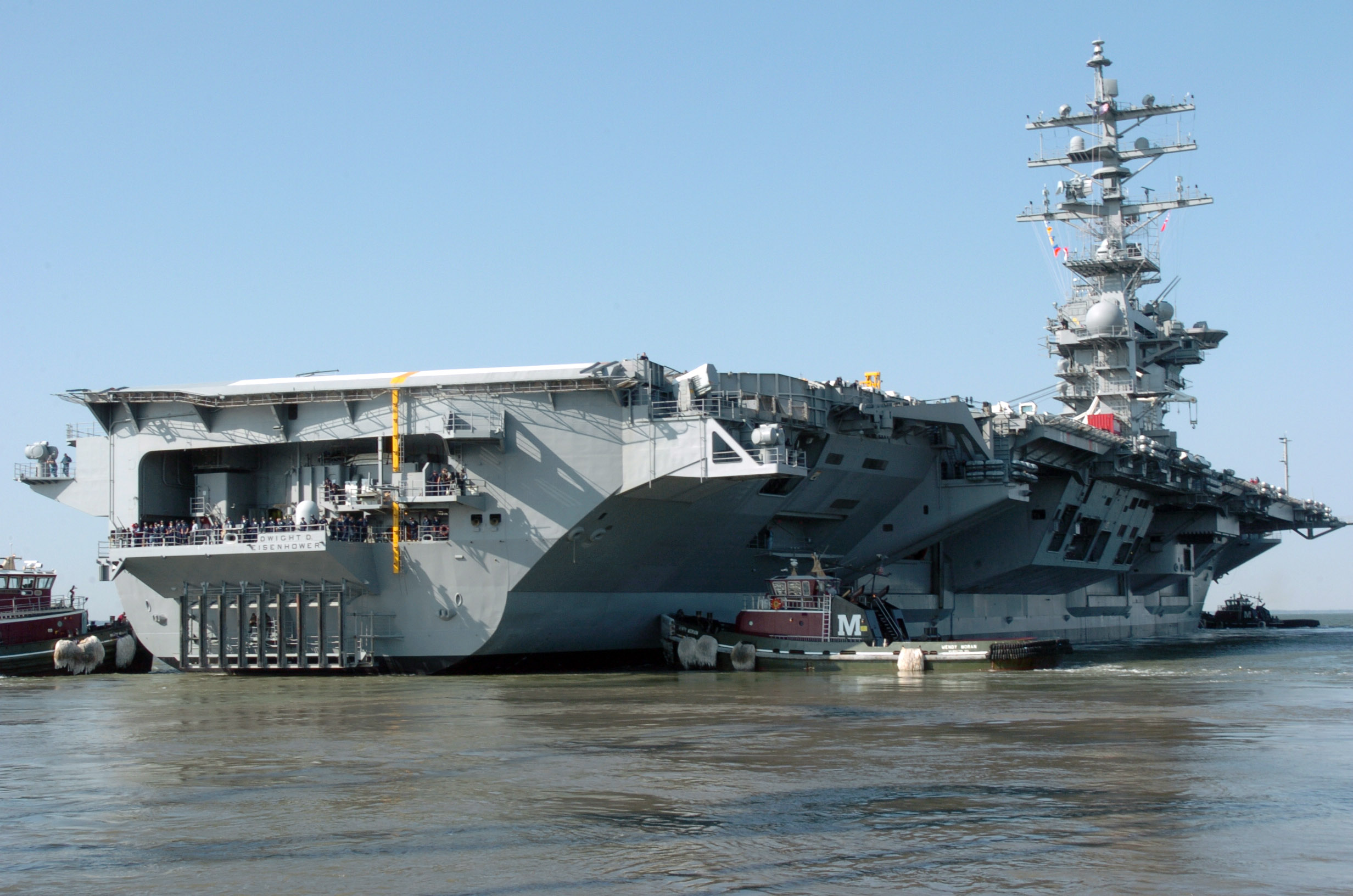 Norfolk, Va. (Oct. 18, 2005) - The Nimitz-class aircraft carrier USS Dwight D. Eisenhower (CVN 69) gets under way from Pier 12 on board Naval Station Norfolk. Eisenhower completed a three-year refueling and complex overhaul in March and this will be her first under way period since completing the repairs. U.S. Navy photo by Photographer's Mate 3rd Class Laura A. Moore (RELEASED)